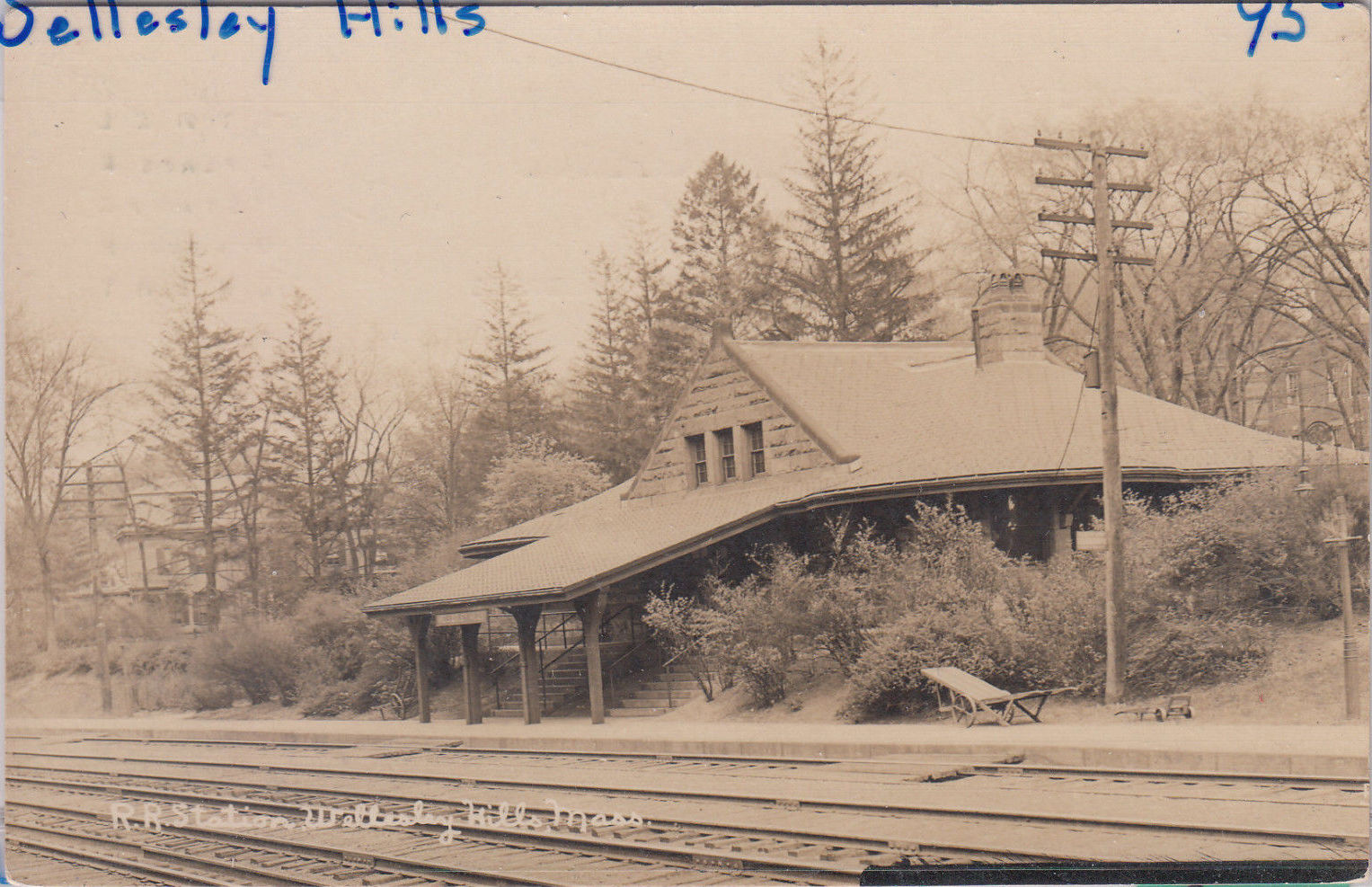 Early divided back postcard of Wellesley Hills station